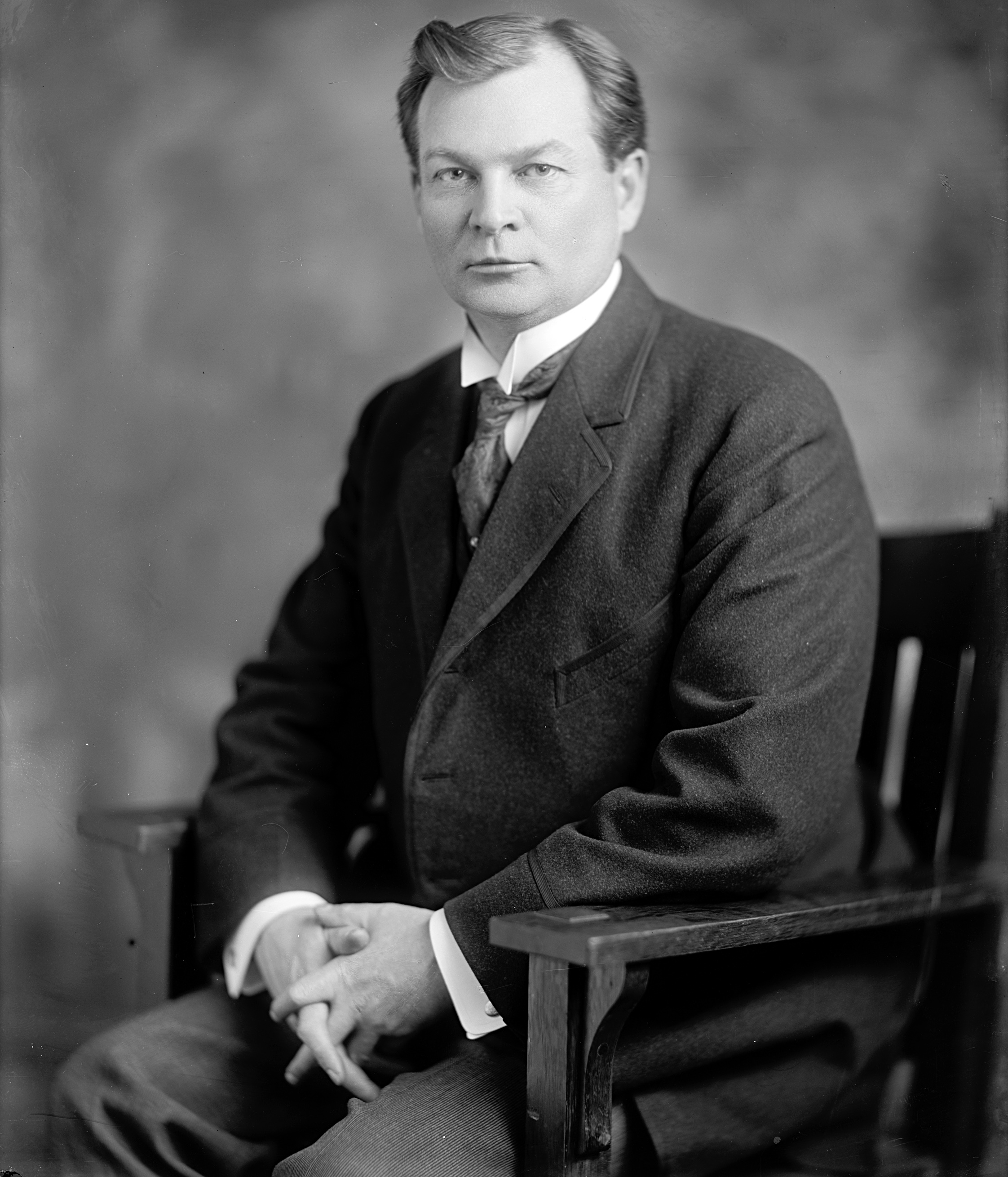 Louis Fitzhenry, US Representative from Illinois and Federal Judge